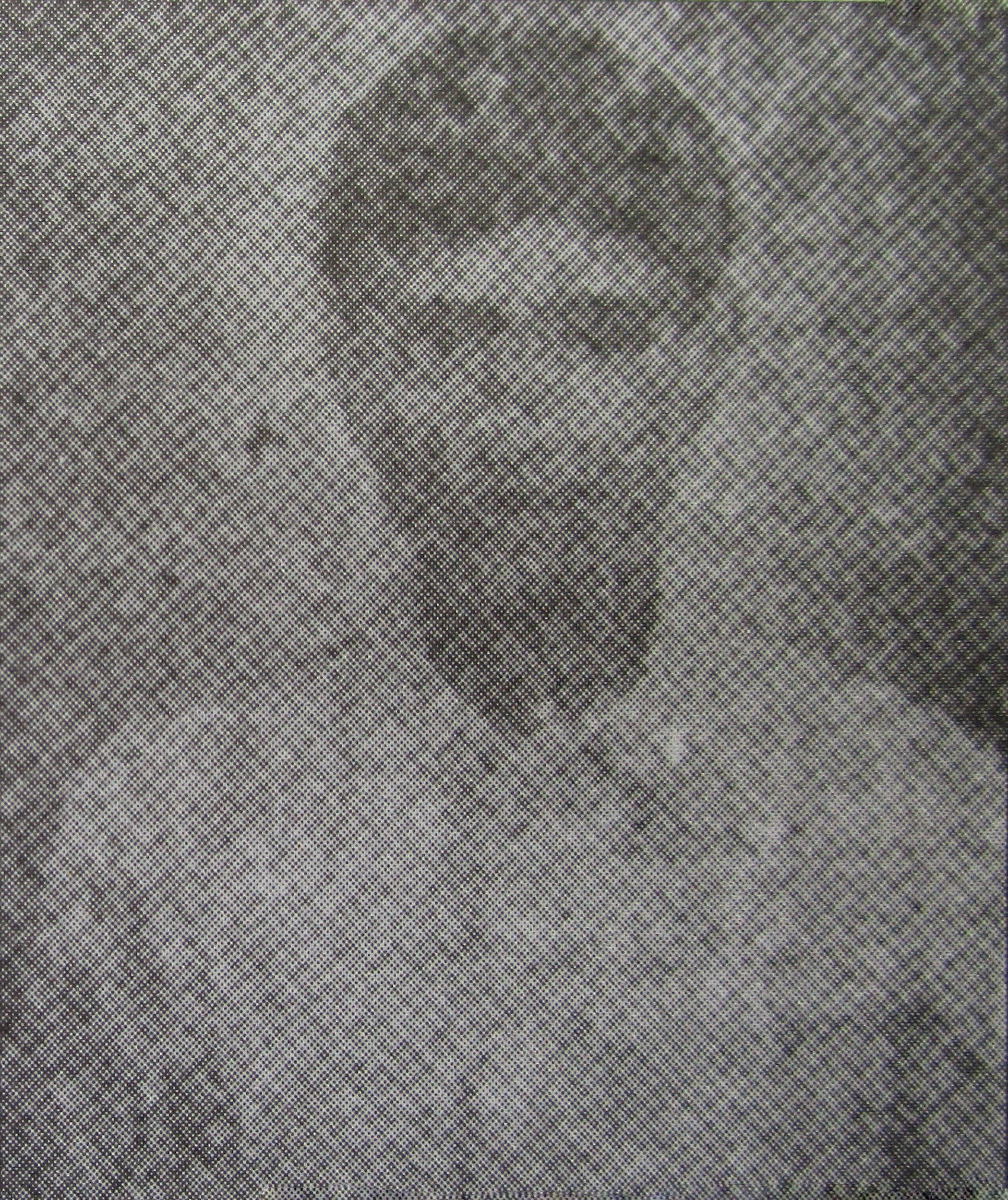 Anathbandhu Panja